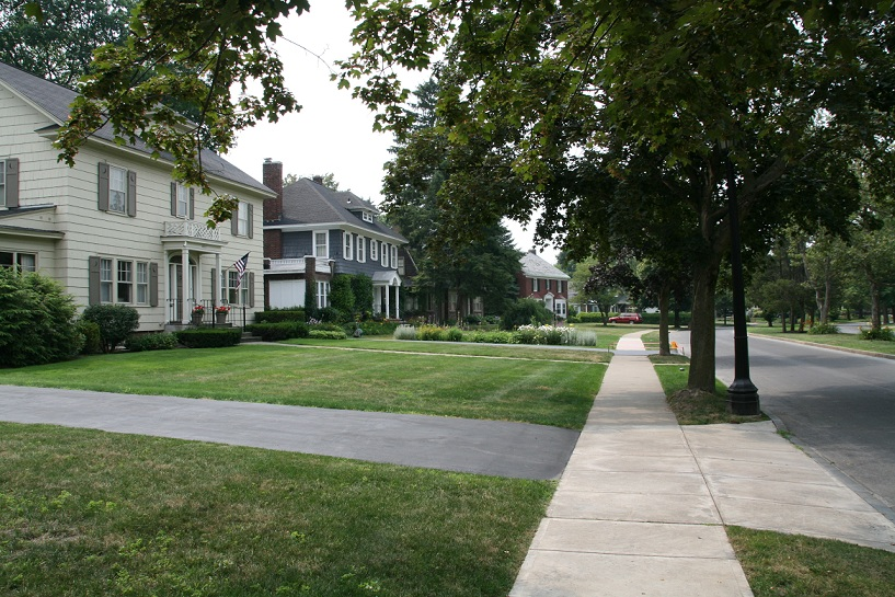 Neighborhood